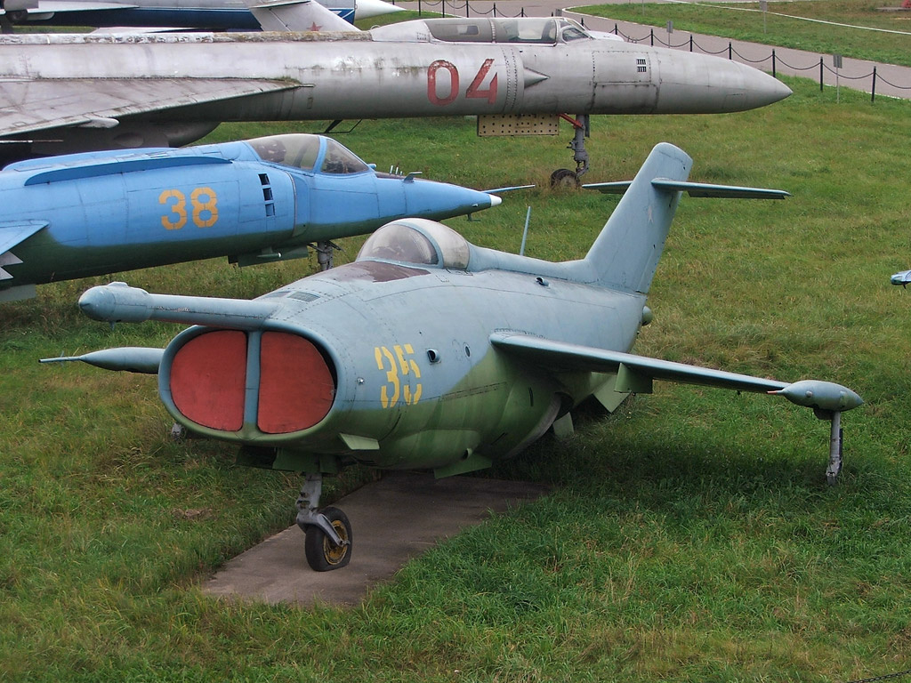 Yak-36 experimental VTOL aircraft at Central Russian Air Force museum, Monino